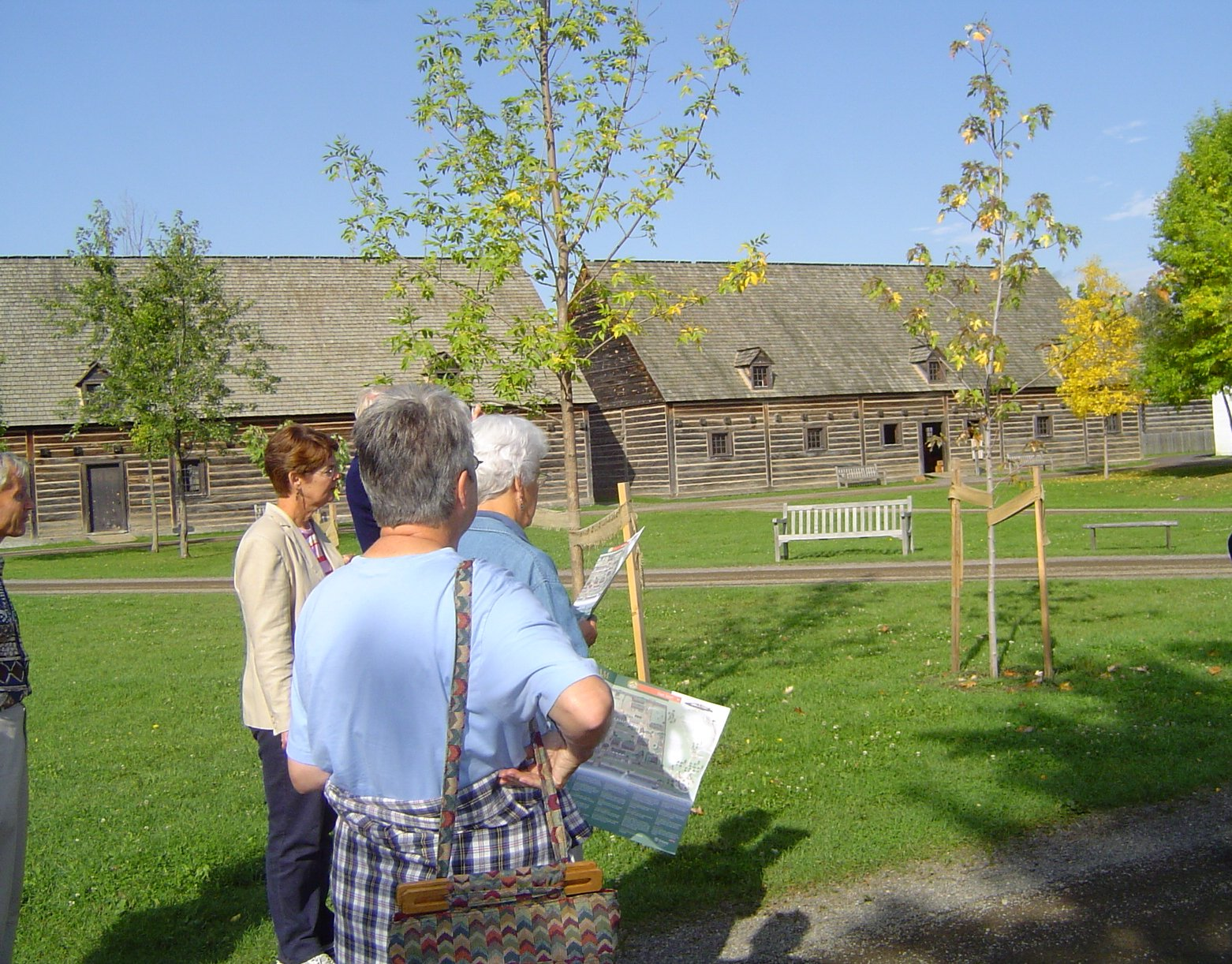 Fort William Historical Park in Thunder Bay, Ontario, Canada Took picture myself 2004